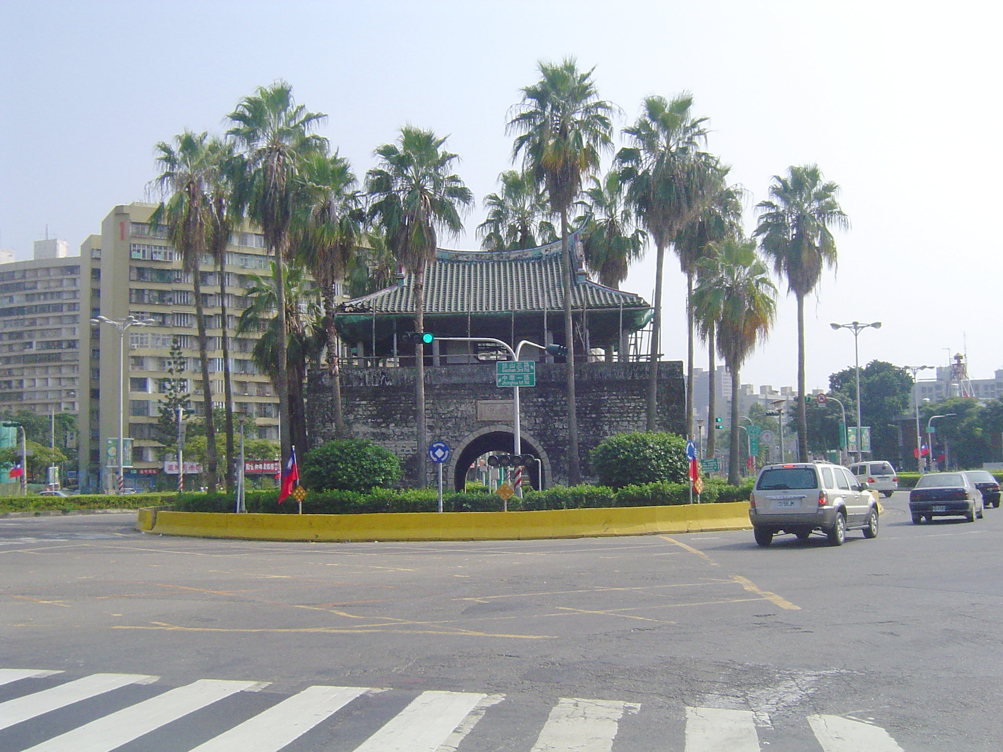 Old south city gate of Fengshan near Kaohsiung, Taiwan. Other city gates of Fengshan: east gate, north gate, former west gate.